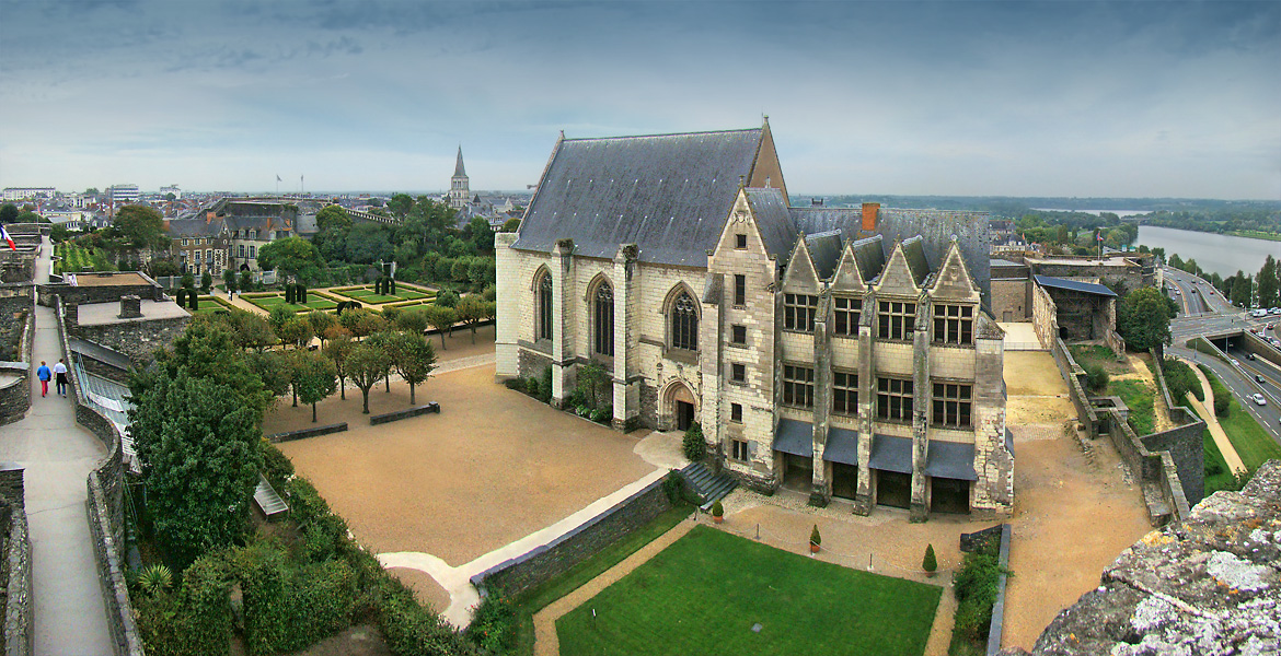 Château d'Angers, Maine-et-Loire, Pays de la Loire, France. Panorama of the interior court. At the centre, the chapel and the royal residence. It is indexed in the Base Mérimée, a database of architectural heritage maintained by the French Ministry of Culture, under the references IA49000839 and PA00108871.